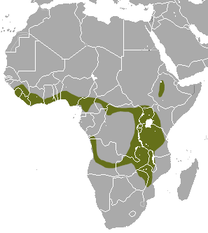 Climbing Shrew (Suncus megalura) range